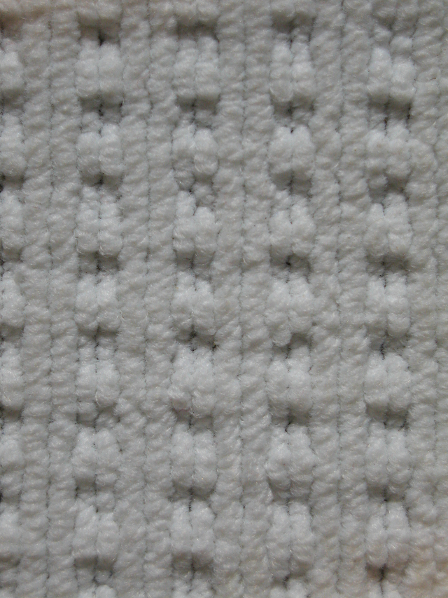 Tufted floorcovering with high low loop pattern